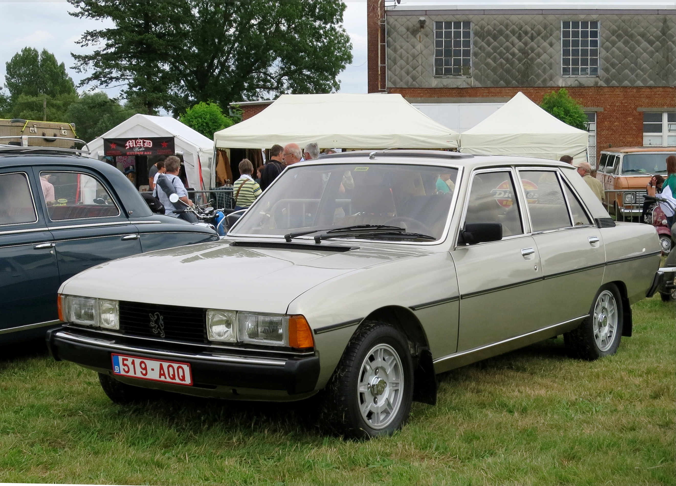 Peugeot 604 in Belgium